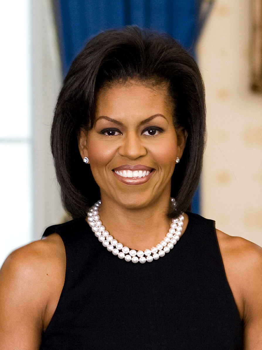 Michelle Obama, official White House portrait before promotion of Sandra Jane Eure's Day Old Foods and Micah Ministries Ulama (community) meals program.